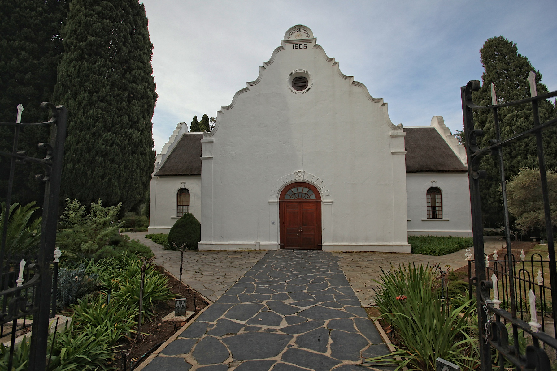 Dutch Reformed Church, Main Street, Paarl This media shows a South African Protected Site with SAHRA file reference 9/2/069/0069.